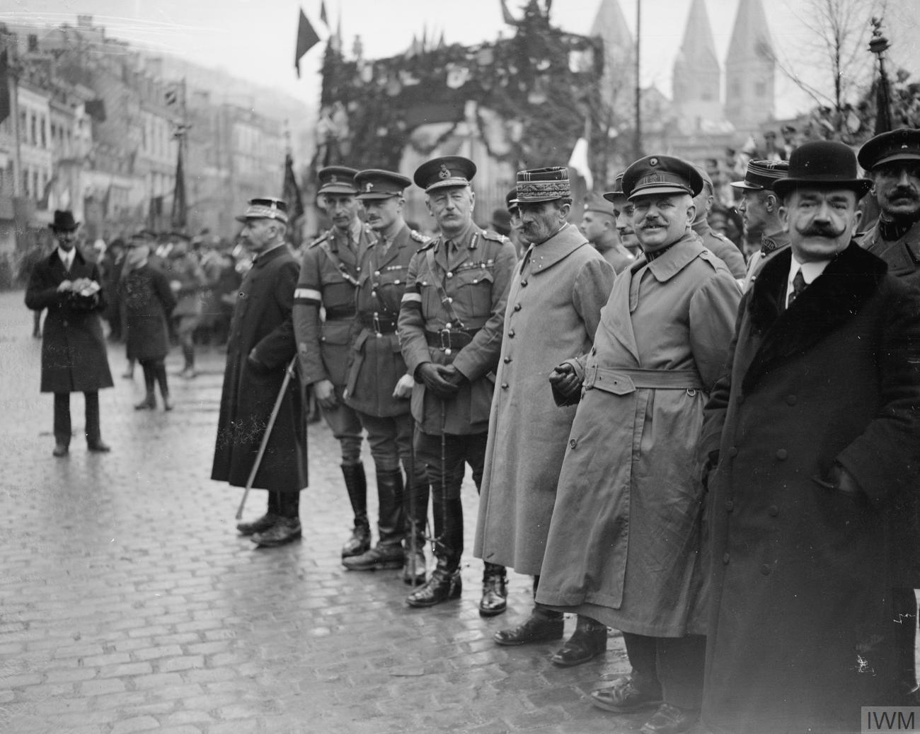 The Surrender of the German Army on the Western Front, November 1918 The Armistice Commission in Spa. Lieutenant General Richard Haking (British), General Alphonse Nudant (President and French representative), and General Hector Delobbe.